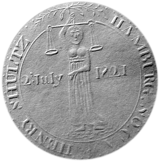 Seal used by Henry Shultz to mark documents 1825-1850. HENRY SHULTZ HAMBURG. SO. CA 2'July 1821 with peculiar 'Bare breasted wolfwoman hoisting a scales in a swamp'.